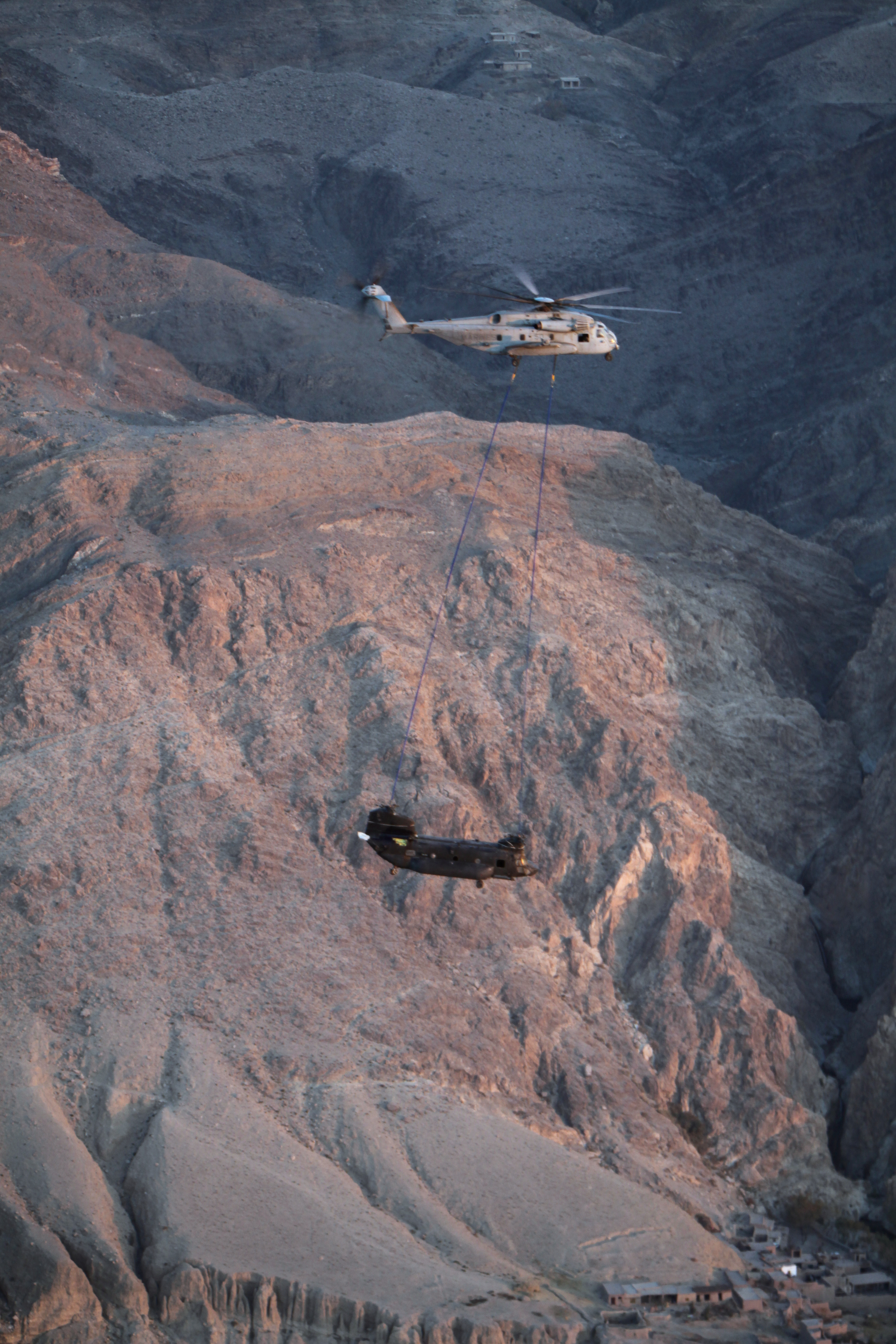 A CH-53E Super Stallion with the Marine Heavy Helicopter Squadron 361 (Reduced) (Reinforced) “Flying Tigers” returns to Forward Operating Base Jalalabad, Afghanistan to deliver a disabled H-47 Chinook for repairs Dec. 10. The Flying Tigers, based out of Camp Bastion, flew across the country to conduct the mission. Their Super Stallions are the only aircraft in country capable of a 23,500 pound external lift.